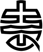 Baptist Union of Great Britain Logo